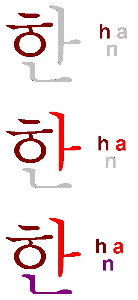 the Korean syllable "han" in Hangeul